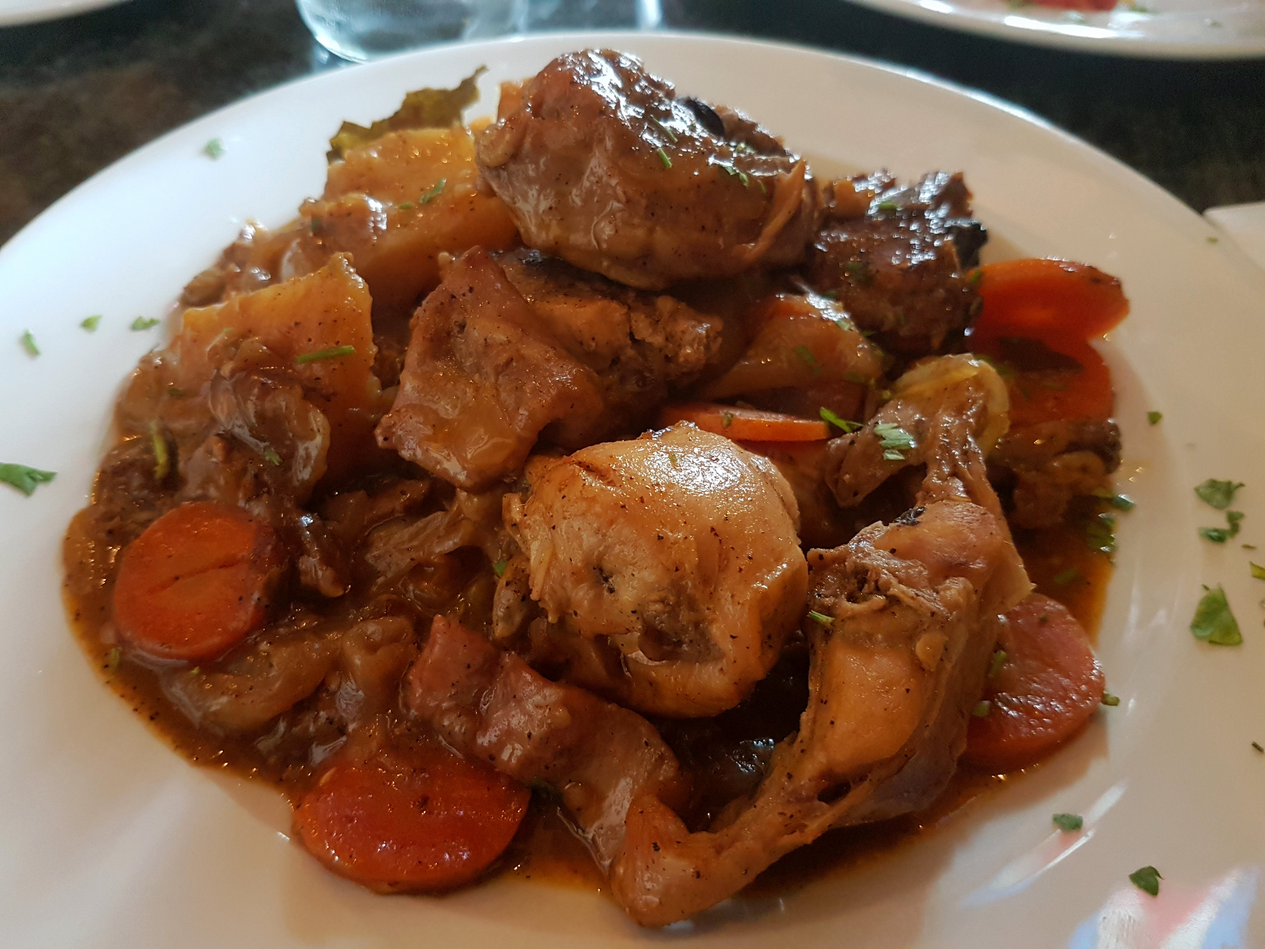 Rabbit Stew cooked in traditional sauce with vegetables and potatoes. Photographed at the restaurant It-Tokk, Pjazza l-Indipendenza, Ir-Rabat Għawdex, Malta.